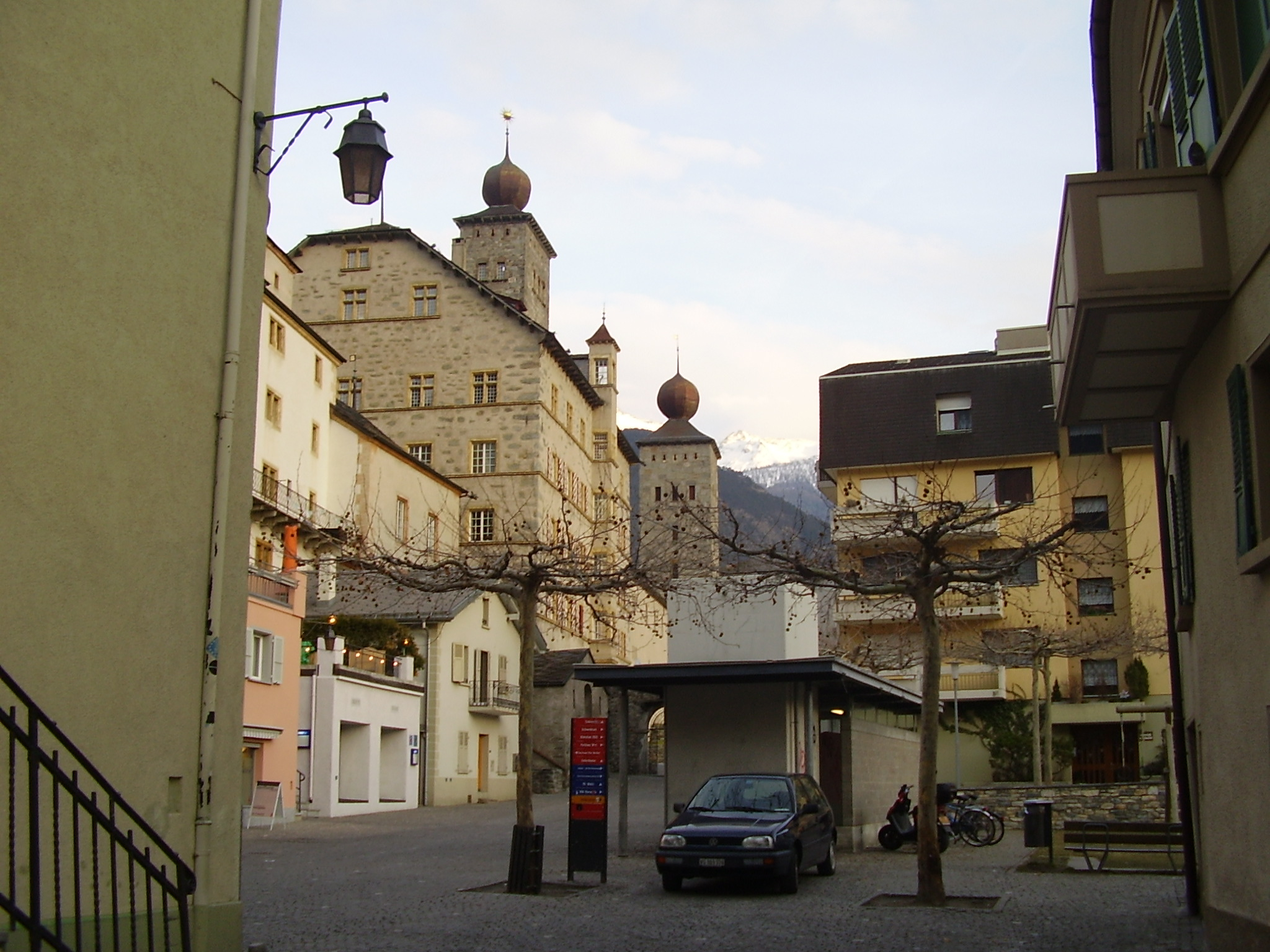 Pictures from Brig with the Stockalperpalast in the Background